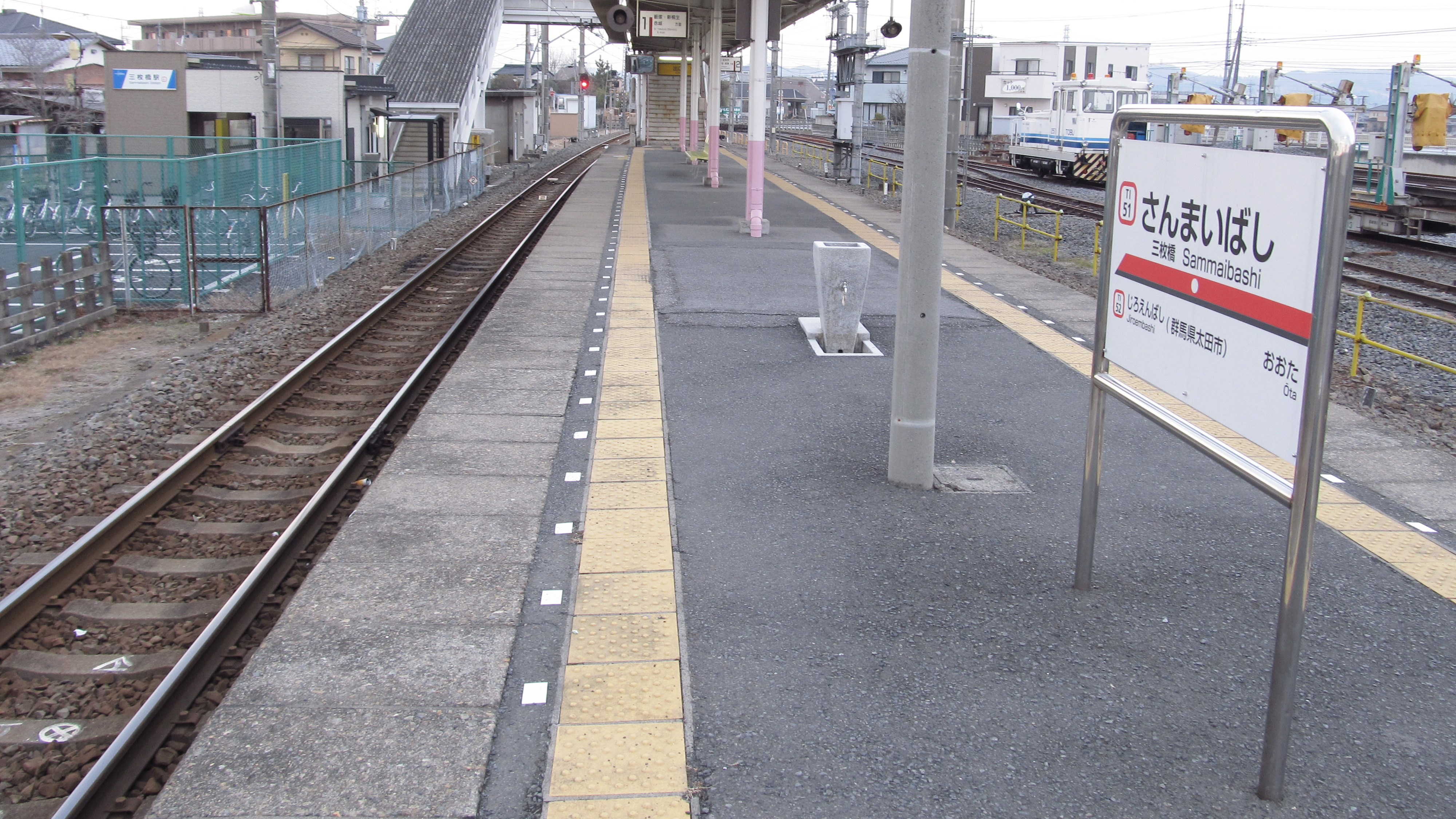 The platform at Sammaibashi Station on the Tobu Railway Kiryū Line in Ōta city, Gumma prefecture, Japan